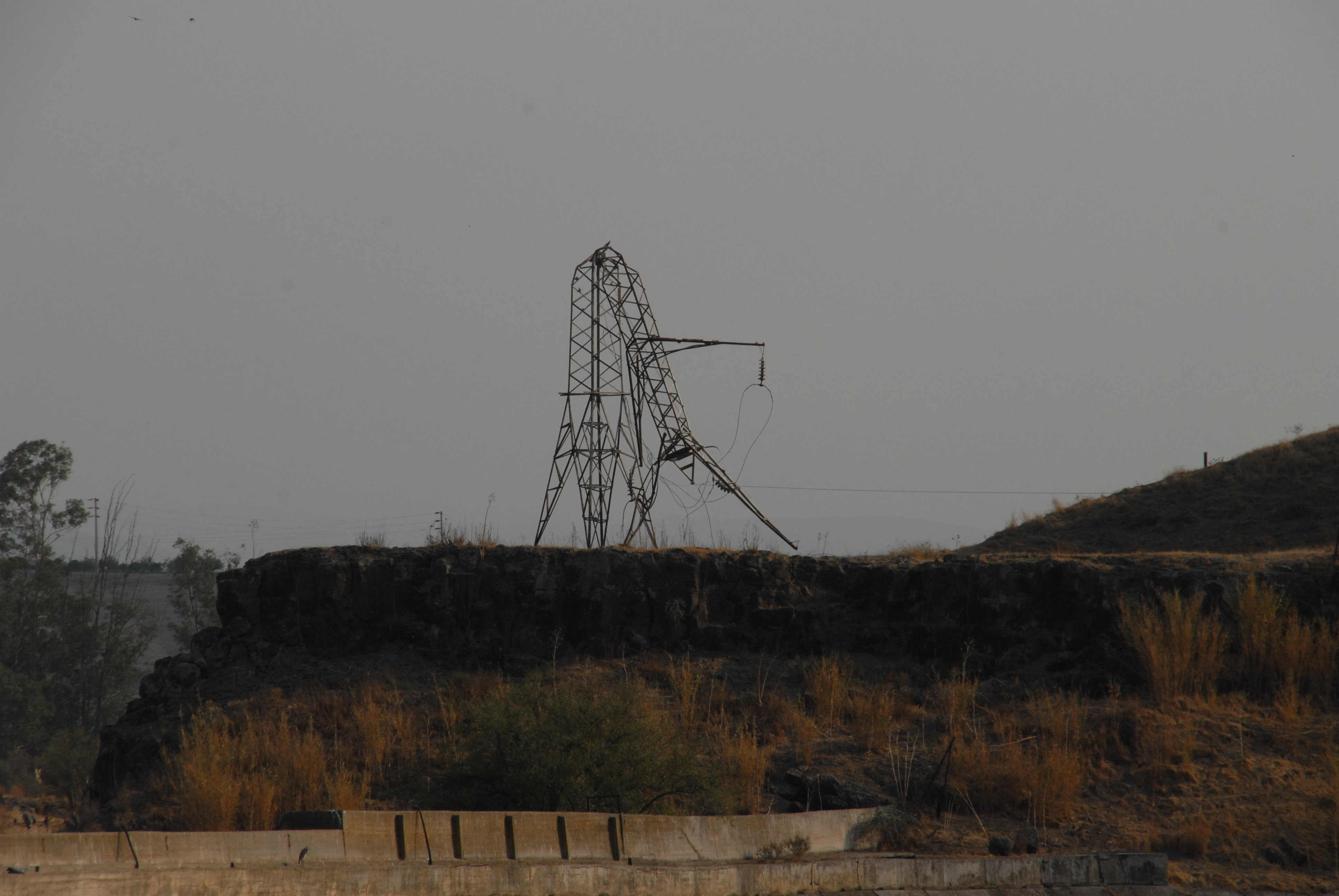 Geography of Israel